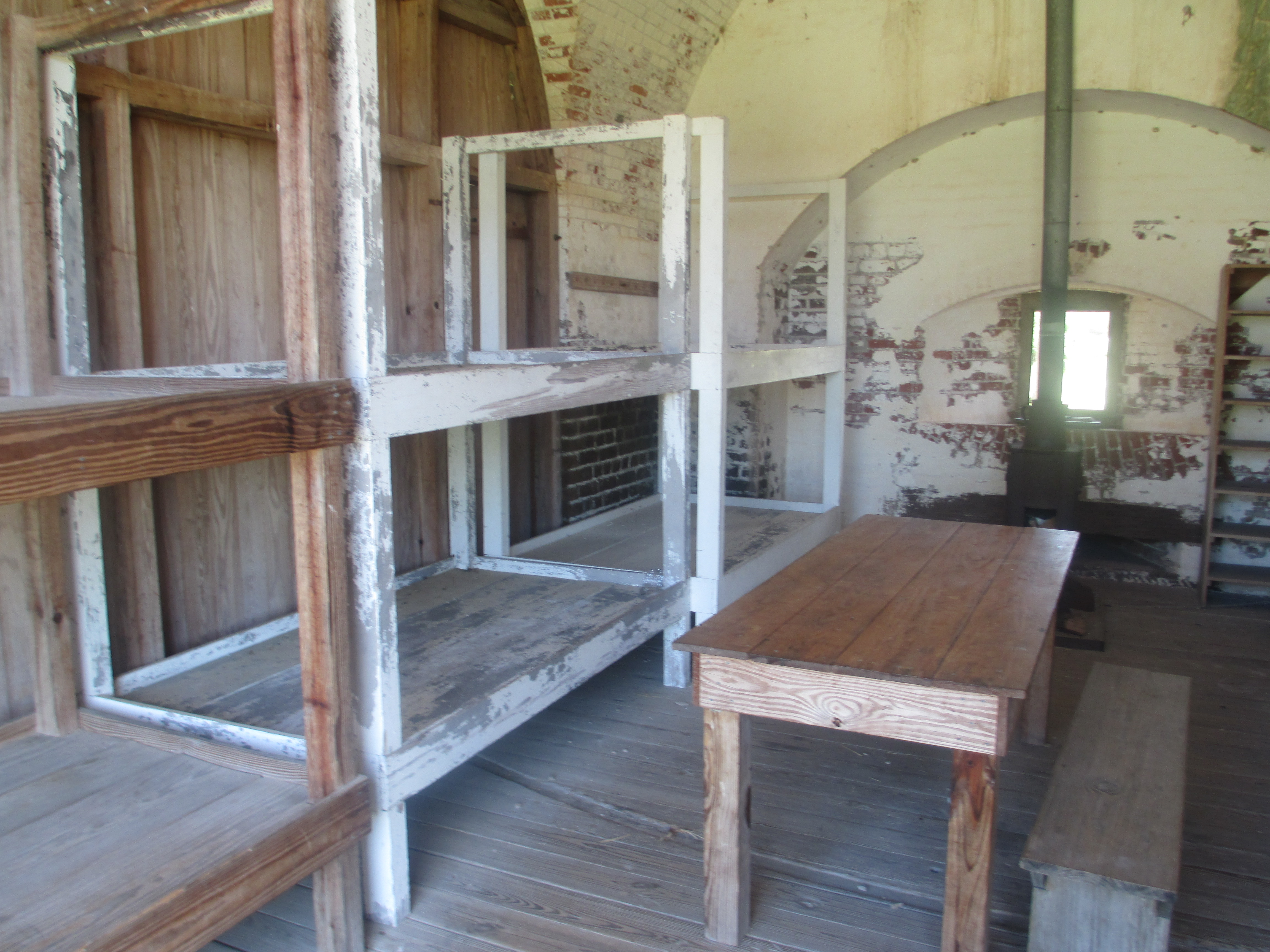 I took photo of former bunk beds at Fort Pulaskiu National Monument, using Canon camera.